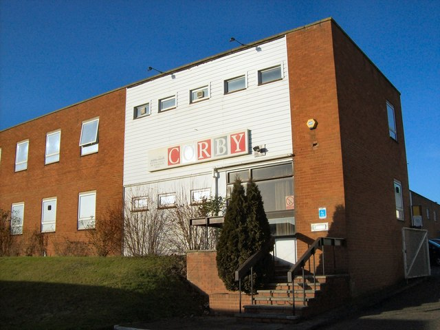 Andover - Factory This is the home of that hotel staple, the Corby trouser pres.